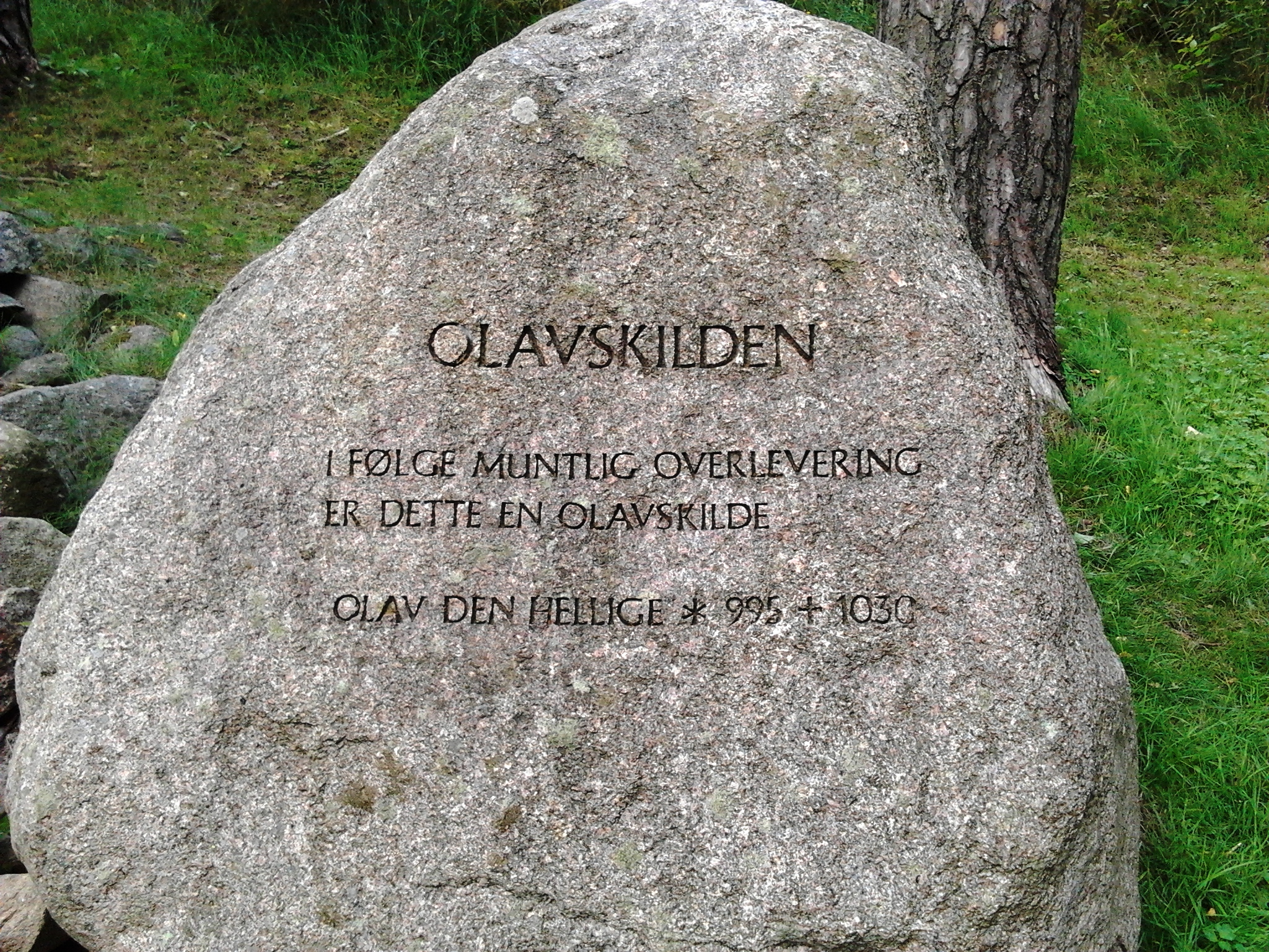 St.Olavs spring in Fjære, Grimstad Norway